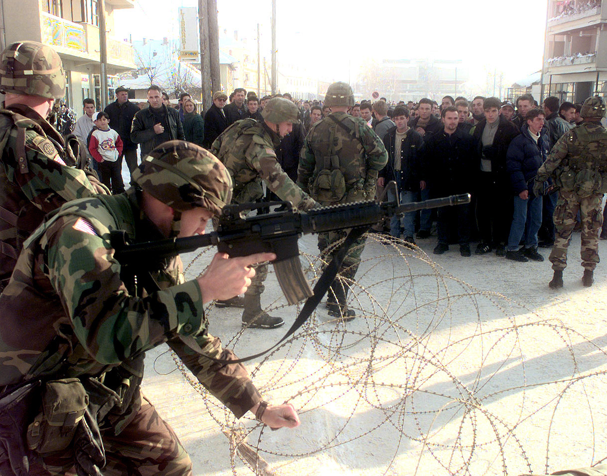 Soldiers of the 504th Parachute Infantry Regiment uncoil two rows of concertina wire to maintain crowd control as residents of Vitina, Kosovo, protest in the streets on Jan. 9, 2000. The protesters were demanding the release of local Albanians held in custody for questioning. The soldiers are attached to the 82nd Airborne Division, Fort Bragg, N.C., and are deployed to Kosovo as part of KFOR. KFOR is the NATO-led, international military force in Kosovo on the peacekeeping mission known as Operation Joint Guardian.